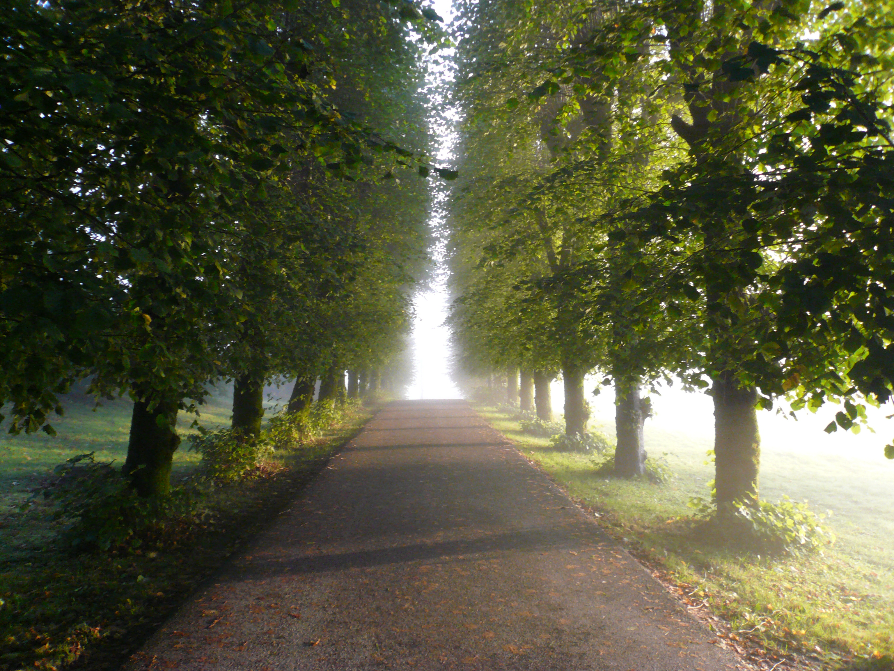 Avenue at Thomas Erichsens Minde, Hop, Askøy, Norway (1793-1795).